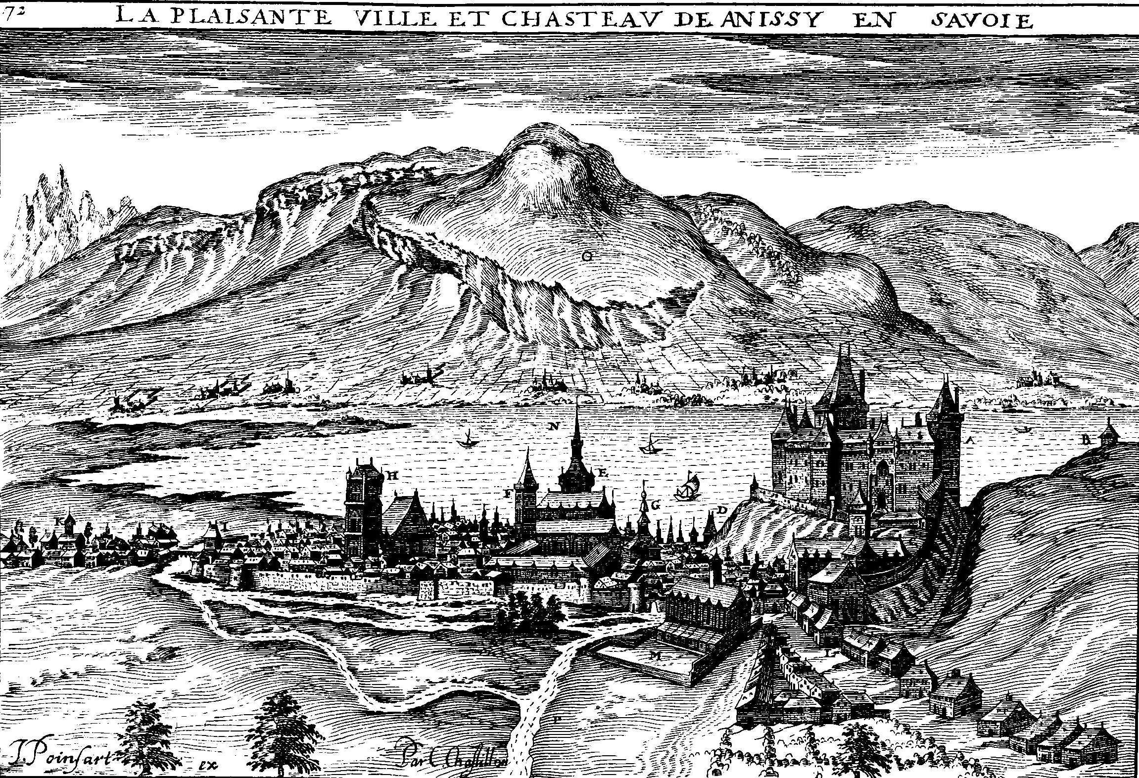 Ancient etching by Claude Chastillon (1159/60-1616)